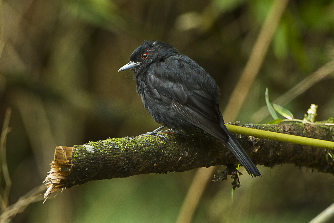 Blue-billed Black-Tyrant - Regua - Brazil_S4E1833